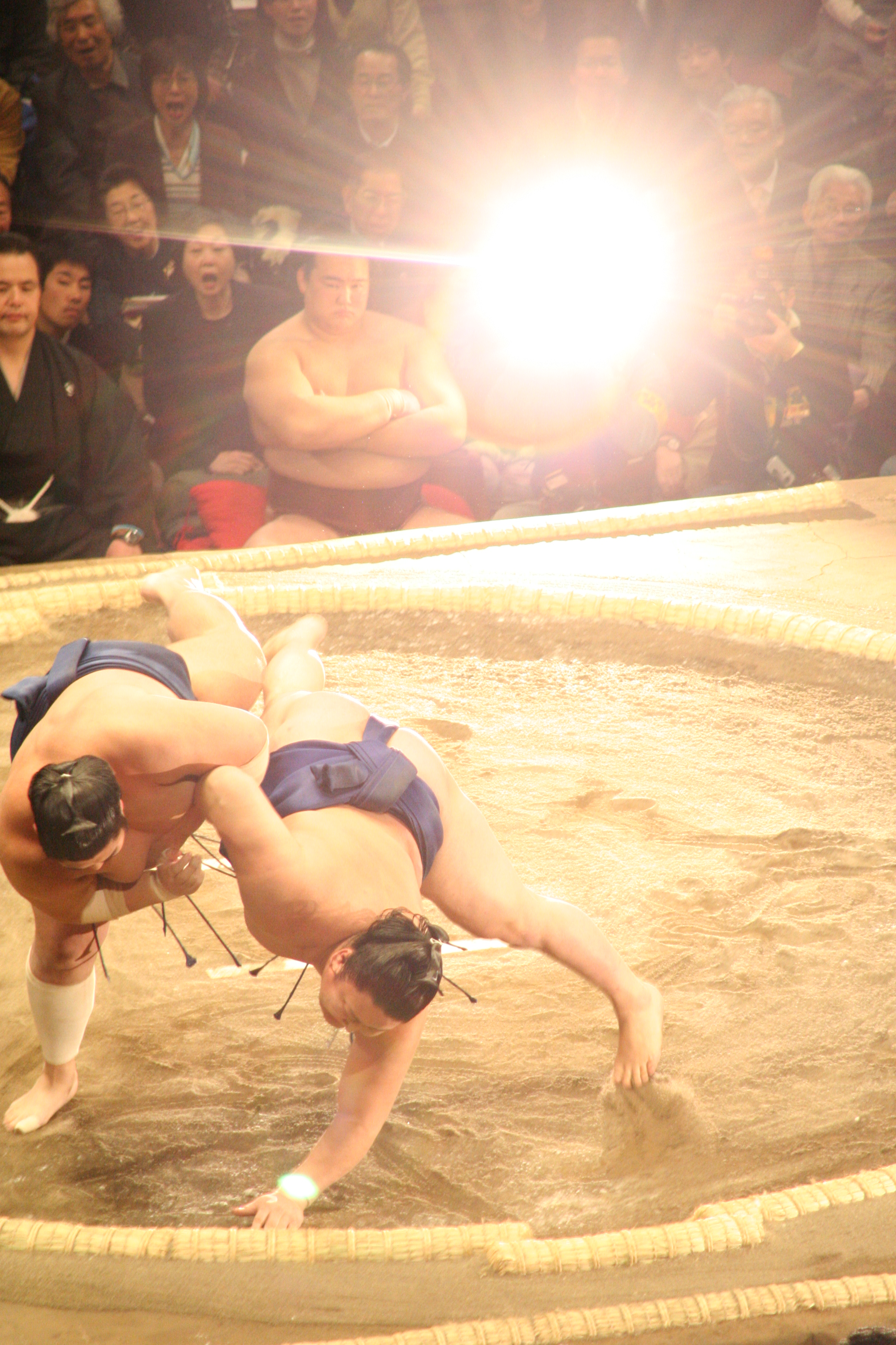 Flashlight effect during the January Sumo Tournament in Tokyo 2008.